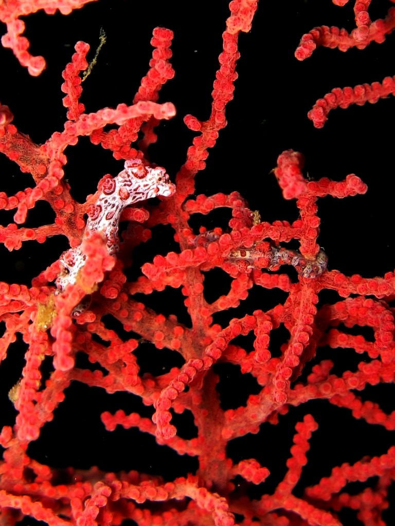 Pygmy seahorse found while diving Nudi's Fall, Lembeh, Indonesia in July 24th 2013